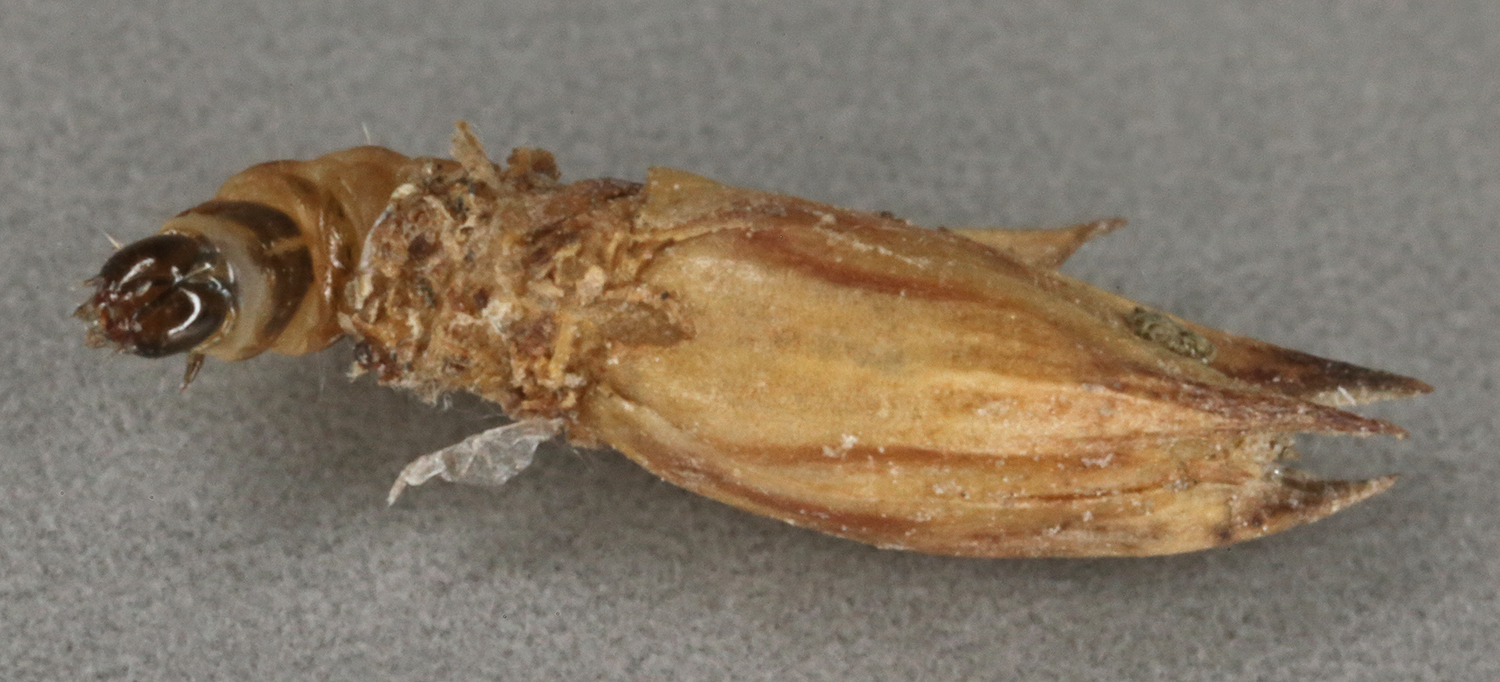 Coleophora adjunctella, Ynys, North Wales, Oct 2015 2